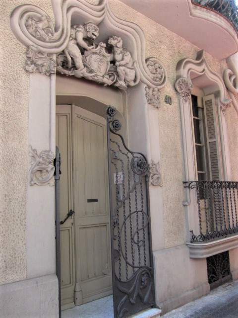 Casa Josep Barnoles, Carrer de les Camèlies 40, Barcelona, Spain